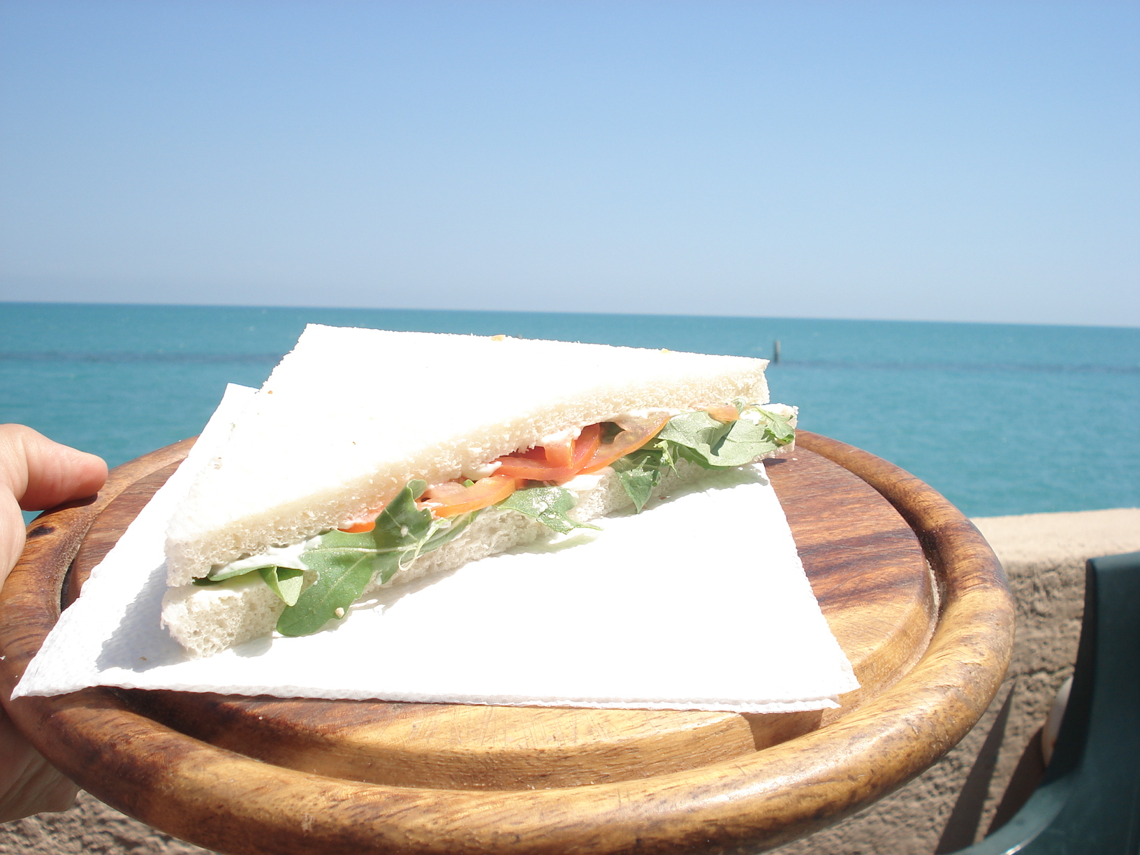 eating the sky